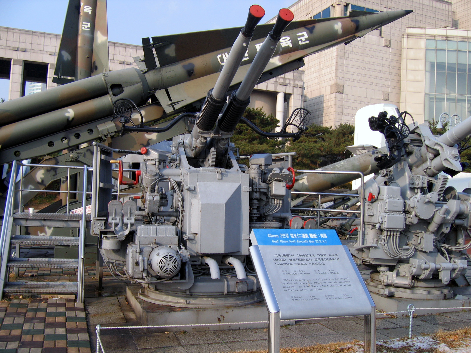 Dual 40mm Anti-Aircraft Gun (USA)